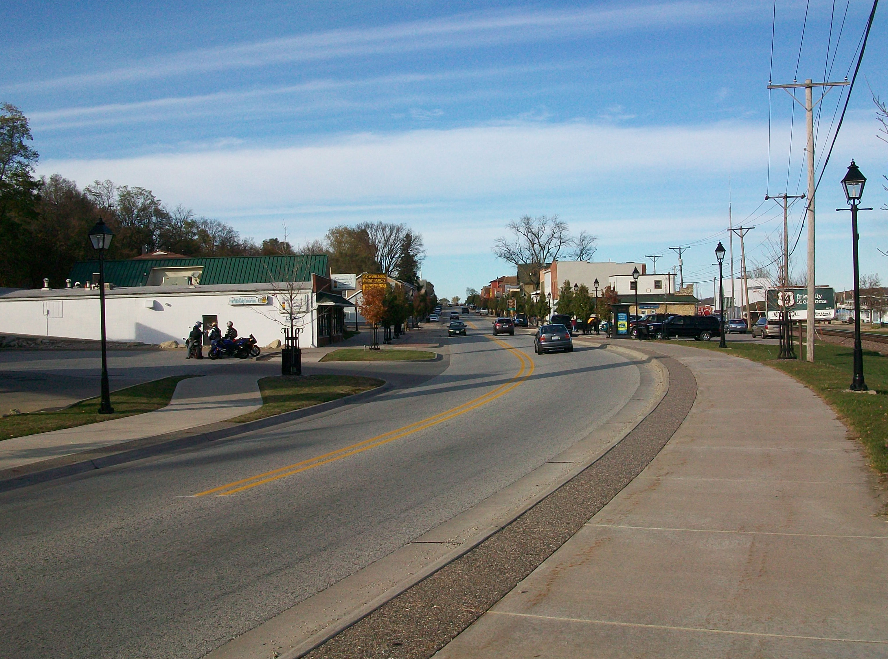 US Highway 67 in LeClaire, Iowa. View is along South Cody Road (US-67) to north, from approximately Davenport Street.